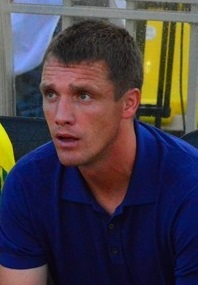 Viktor Goncharenko as a head coach of FC Kuban